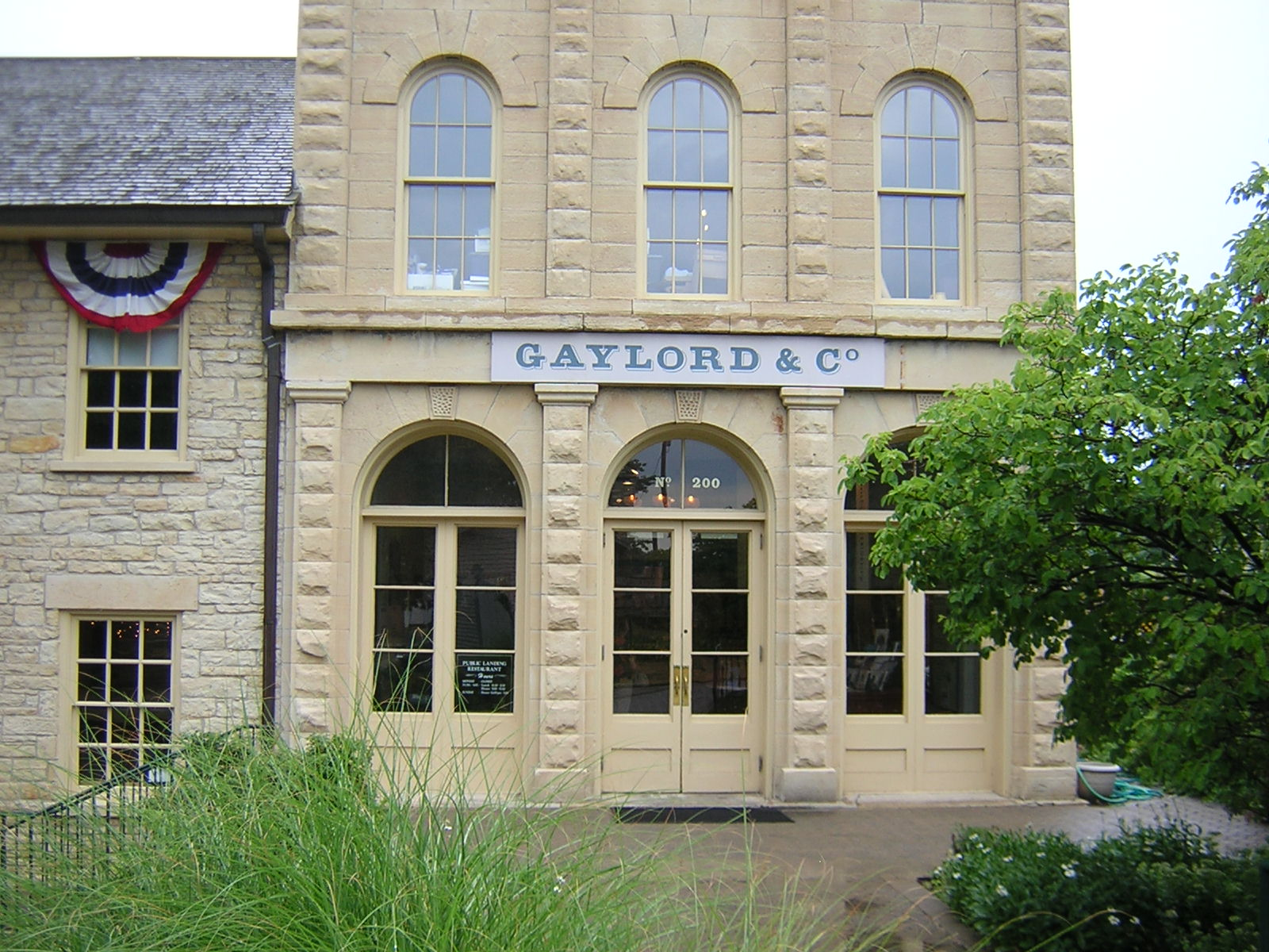 Gaylord Building in Lockport, Illinois, pivotal to the construction of the Illinois & Michigan Canal, 1859 addition detail, taken from front entrance